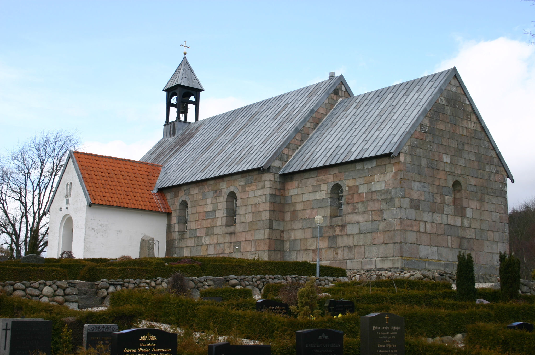 Skjern Church, Midjutland. Skjern Kirke mellem Viborg og Randers